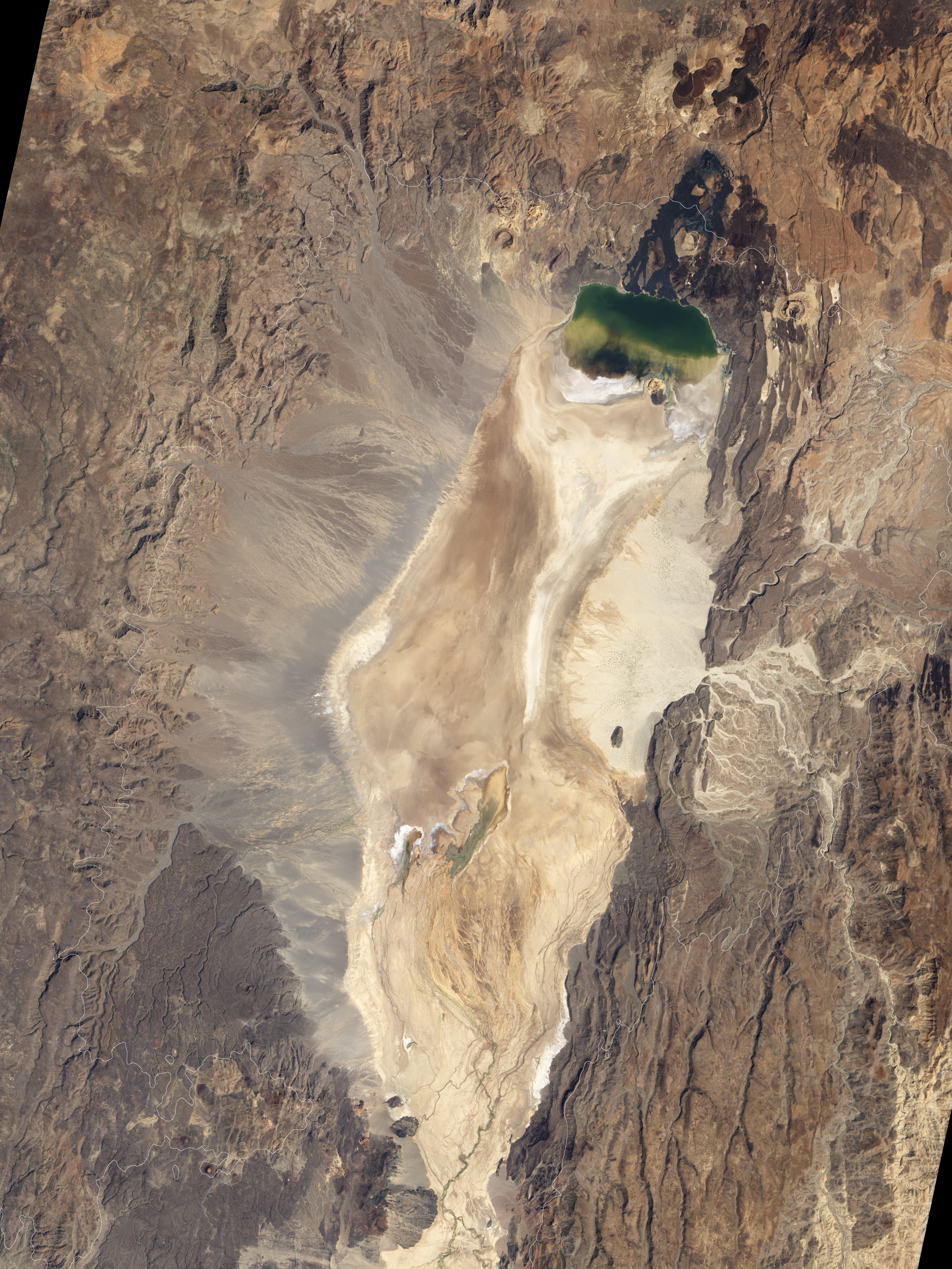 Suguta valley in northern Kenya. NASA Satellite view on January 10, 2011.